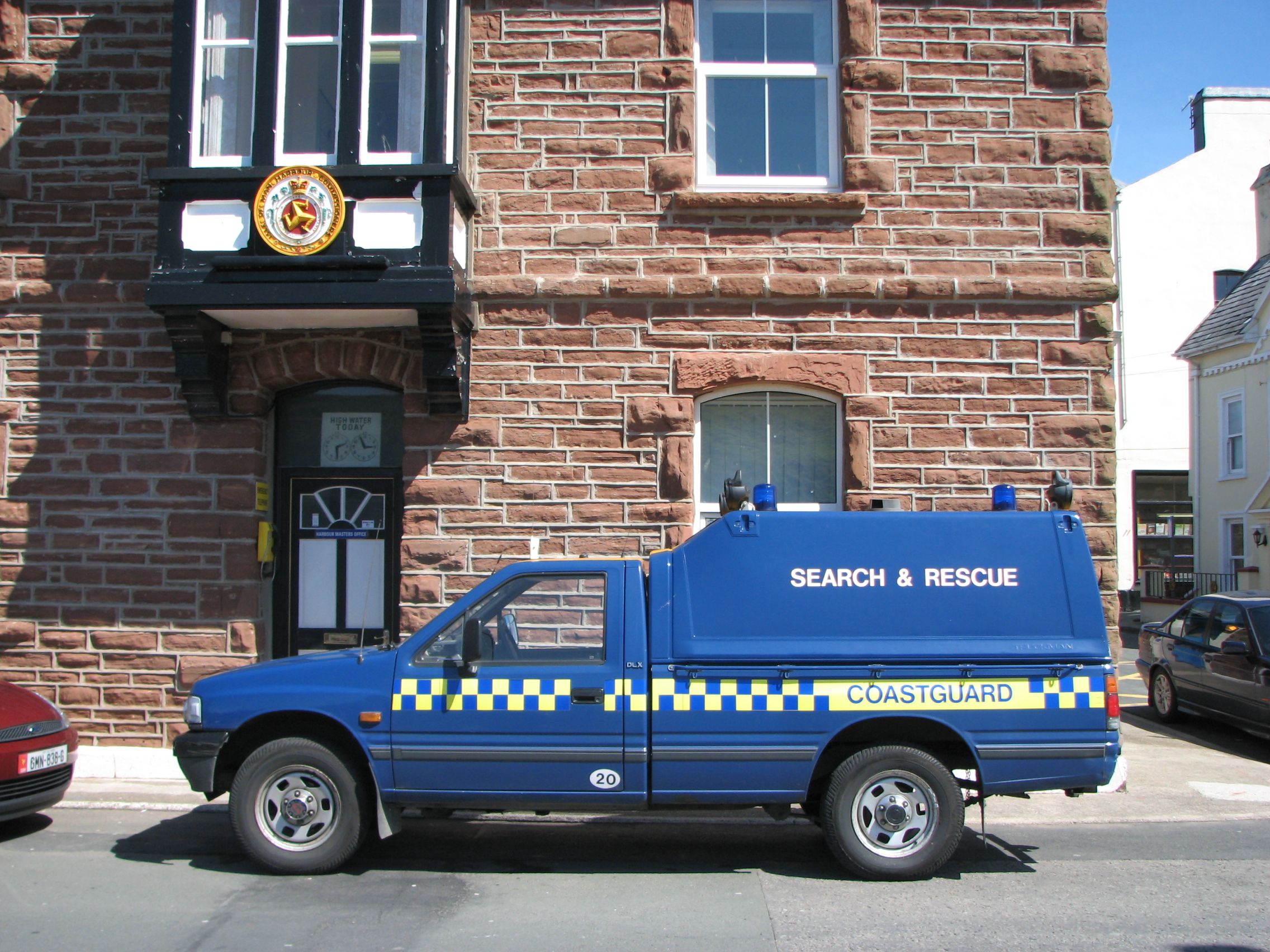 Coastguard car in the city of Peel, Isle of Man